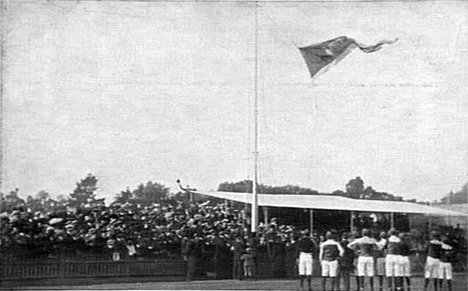 Carlton Football Club hoist the 1906 VFL premiership flag in 1907 at the Carlton Oval. The ritual of hoisting of the premiership flag in Australian sporting culture dates back to 1895 and is an enduring symbol in Australian sporting culture and particularly Australian rules football. "The Flag" is figuratively still as important as "the Cup" in the VFL/AFL long after a premiership trophy was introduced in 1959.